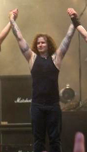 James MacDonough at Sauna Open Air Metal Festival in Tampere.